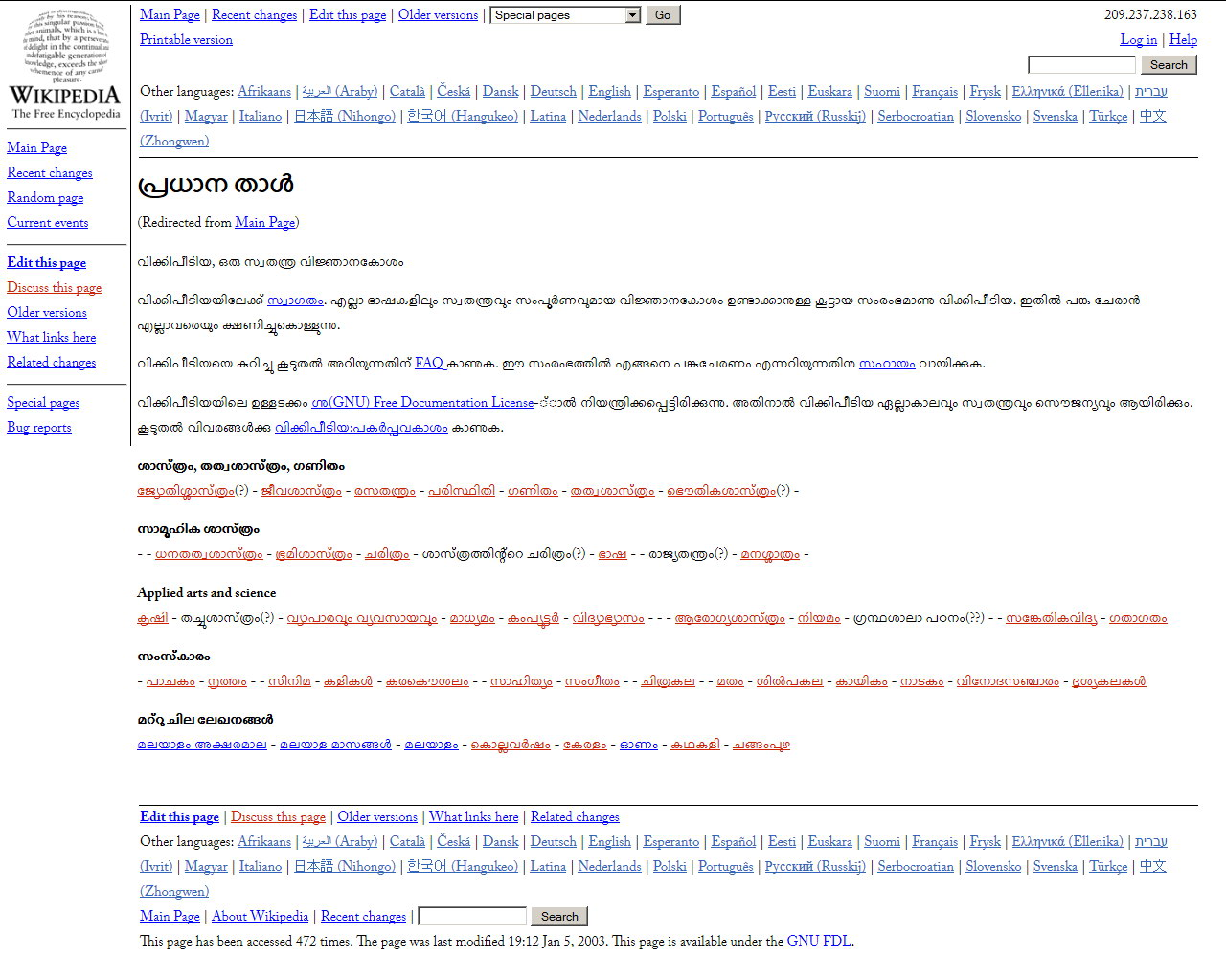 Screen shot of Malayalam Wikipedia as on 9th January 2003. The total visit count for this page until then (as shown on the page itself) was 472.